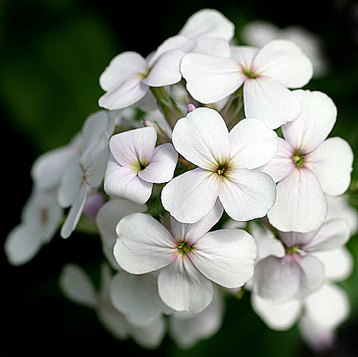 Self made picture of Hesperis matronalis.